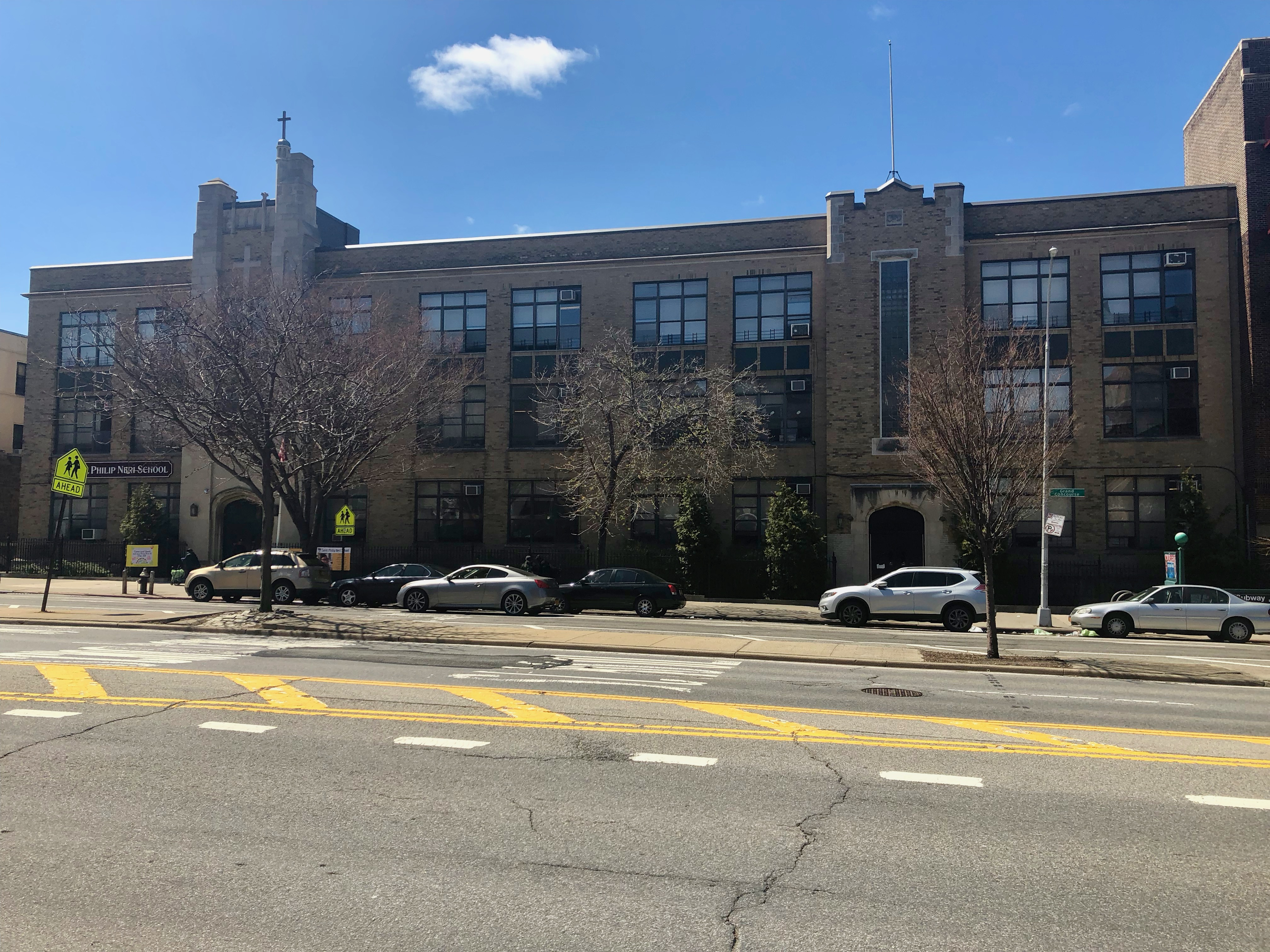 St Philip Neri School in The Bronx, New York City